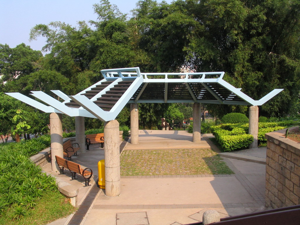 元朗公園 涼亭 A Garden Pavilion at Yuen Long Park